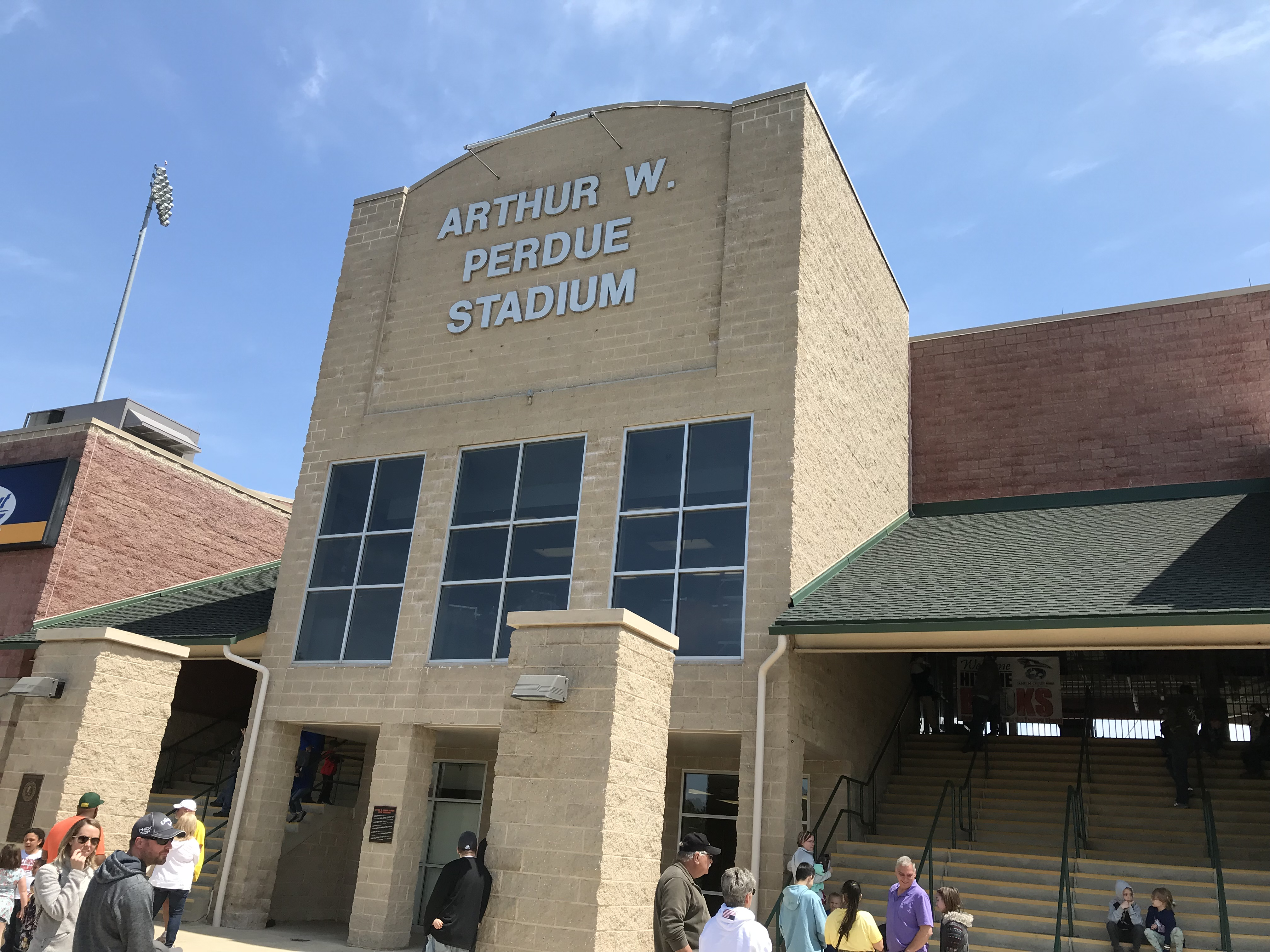 The entrance to Arthur W. Perdue Stadium in Salisbury, Maryland.